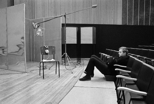 Photograph of the Finnish musician Esko Linnavalli (1941–1991) at Kulttuuritalo, Helsinki.